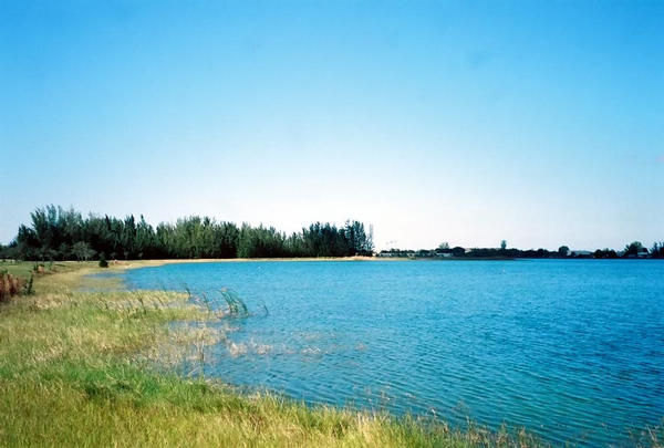 Lakeshore at Amelia Earhart Park in Hialeah. Category:Parks in Miami-Dade County Lakeshore at Amelia Earhart Park in Hialeah.